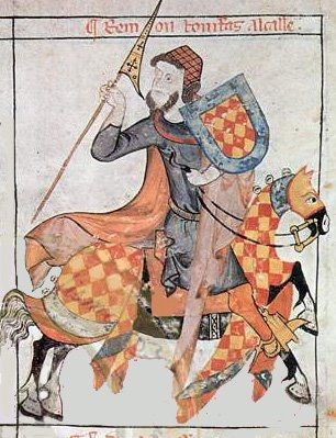 Illustration from the medieval "Libro Armorial de La Cofradia de la Parroquia de Santiago de la Fuente de Burgos." The drawing bears the caption, "Remon Bonifas, alcalle."